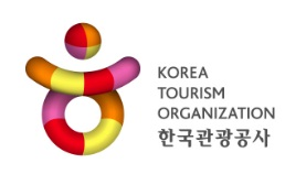 Logo of the Korea Tourism Organization